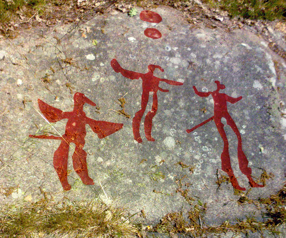 Petroglyph at Kallsängen (RAÄ No Bottna 88:1) in Bottna Parish, Kville Hundred, Tanum Municipality, Bohuslän, Västra Götaland County, Sweden.